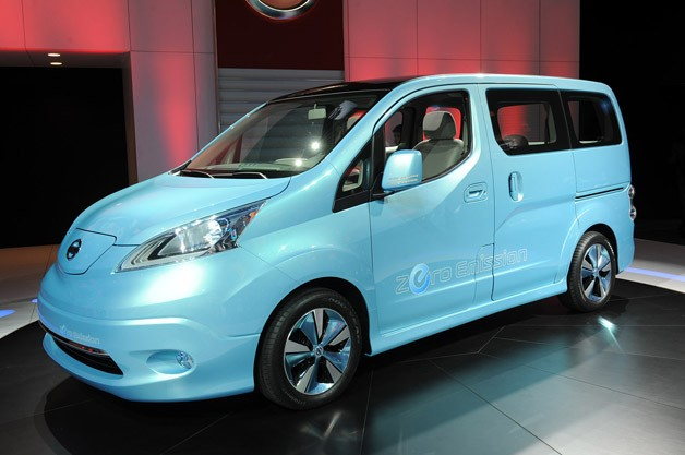 There was plenty of high-end metal being unveiled at the Geneva Motor Show, but the likes of the one-off Lamborghini Aventador J, the Ferrari F12 Berlinetta, and the Maserati GranTurismo Sport, and others weren’t the real show stoppers... there were plenty of the big-end players downsizing: Mercedes-Benz A-Class, Audi A3, Volvo V40, and much more. Here’s what flicked our switch. You can check out more on the 2012 Geneva Motor Show here at; as well as